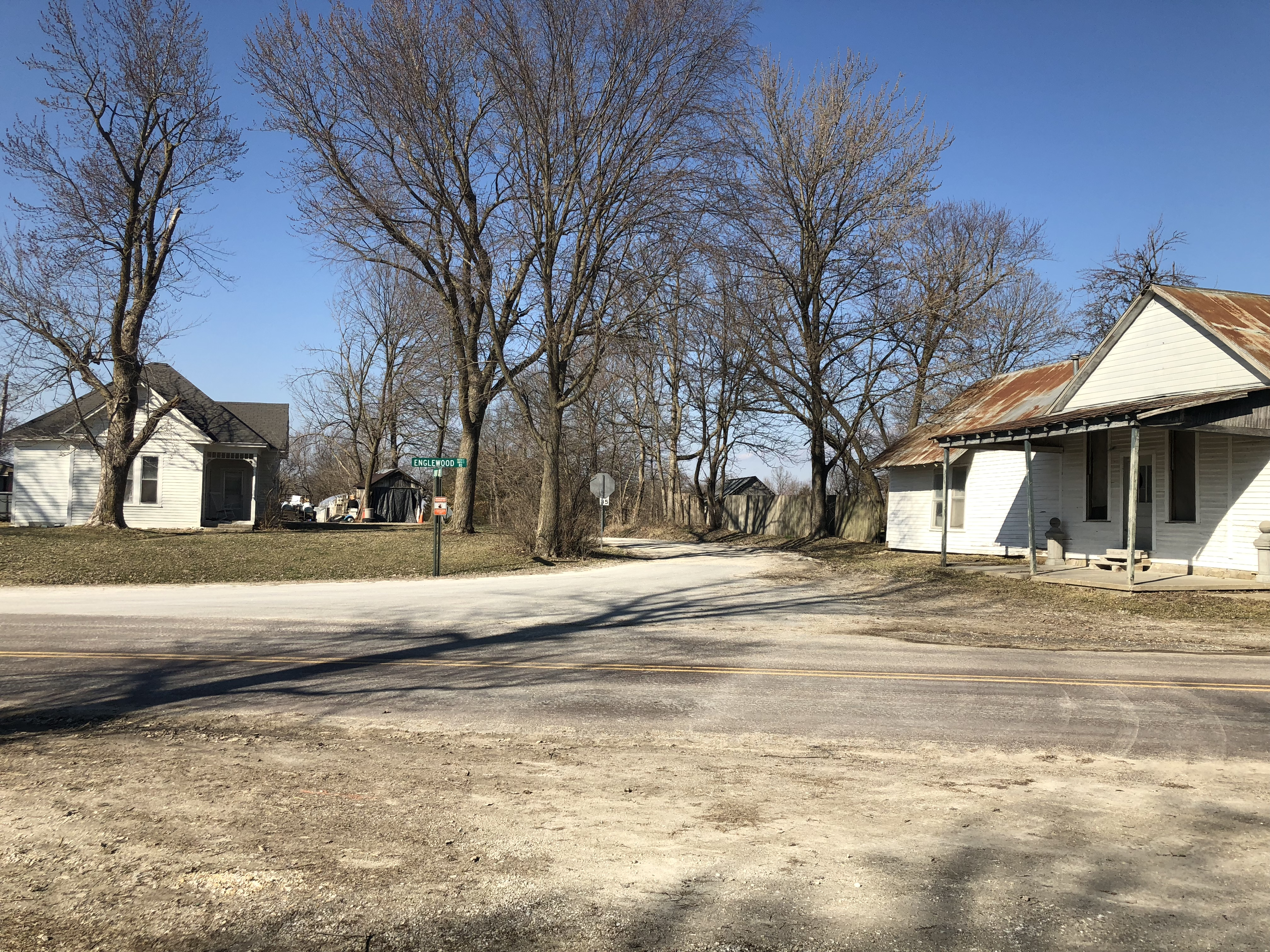 Englewood, Missouri on March 17th 2019.